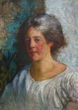 Portrait of his wife, the painter Emma Chadwick